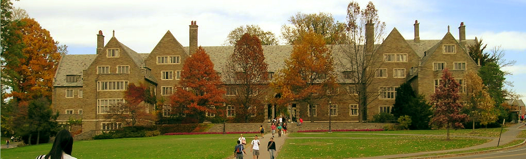 Uploaded from